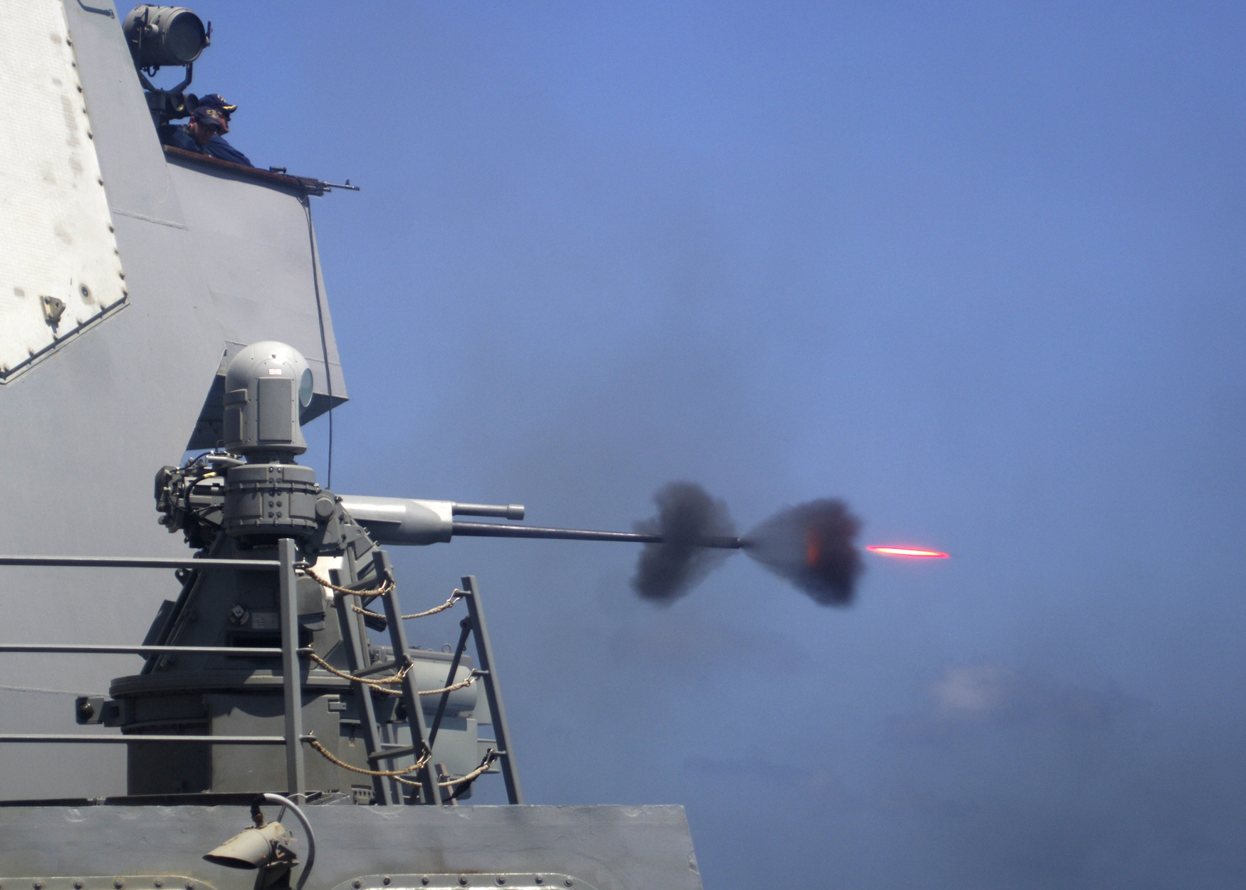 GULF OF ADEN (Feb. 28, 2011) An MK-38 25mm gun system is fired during a live-fire exercise aboard the guided-missile destroyer USS Mason (DDG 87). Mason is deployed as part of the Enterprise Carrier Strike Group and assigned to Combined Task Force 151, supporting maritime security operations and theater security cooperation efforts in the U.S. 5th Fleet area of responsibility. (U.S. Navy photo by Mass Communication Specialist 3rd Class Jeffry A. Willadsen/Released)